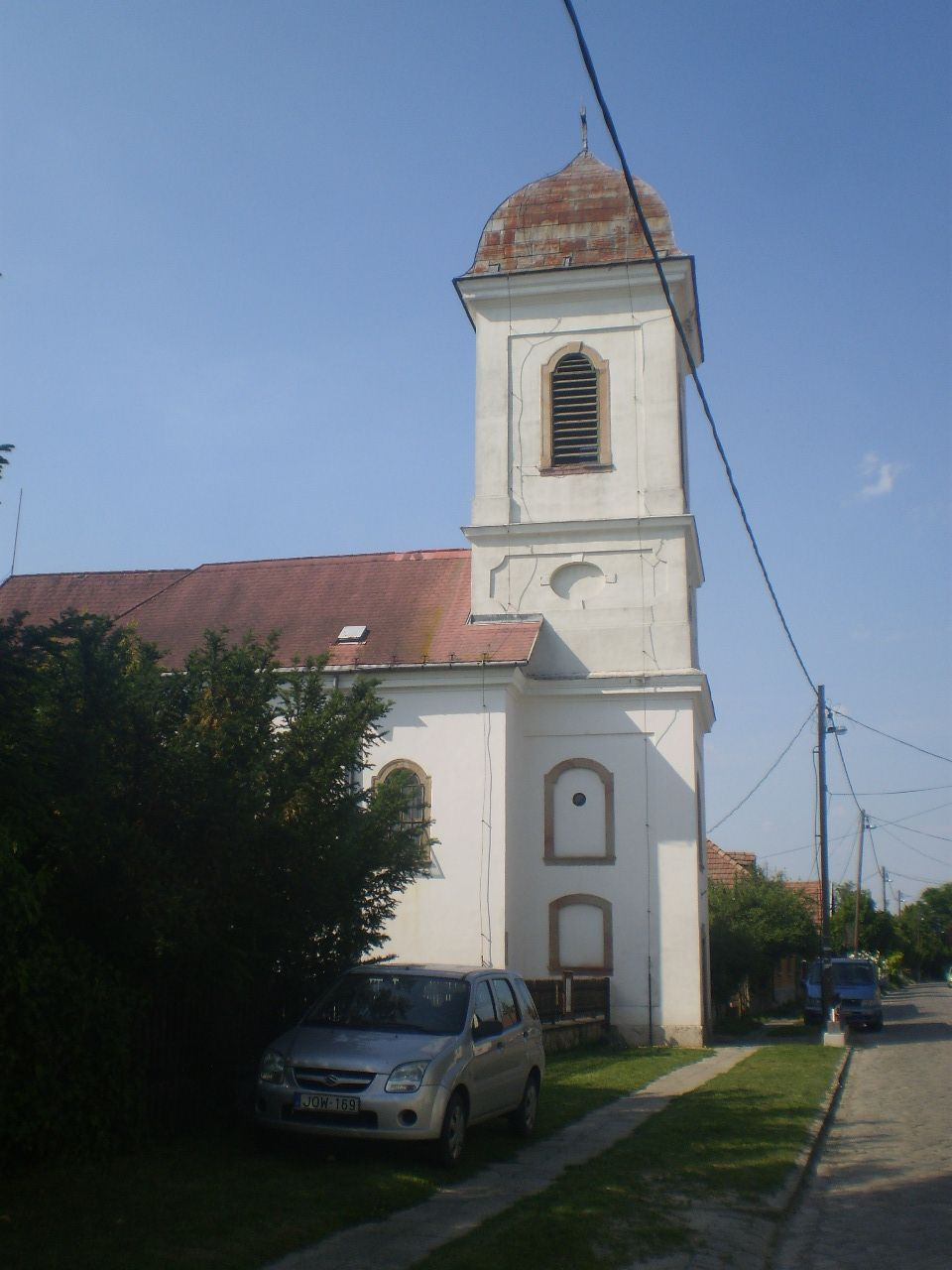 Szigetmonostor katolikus templom